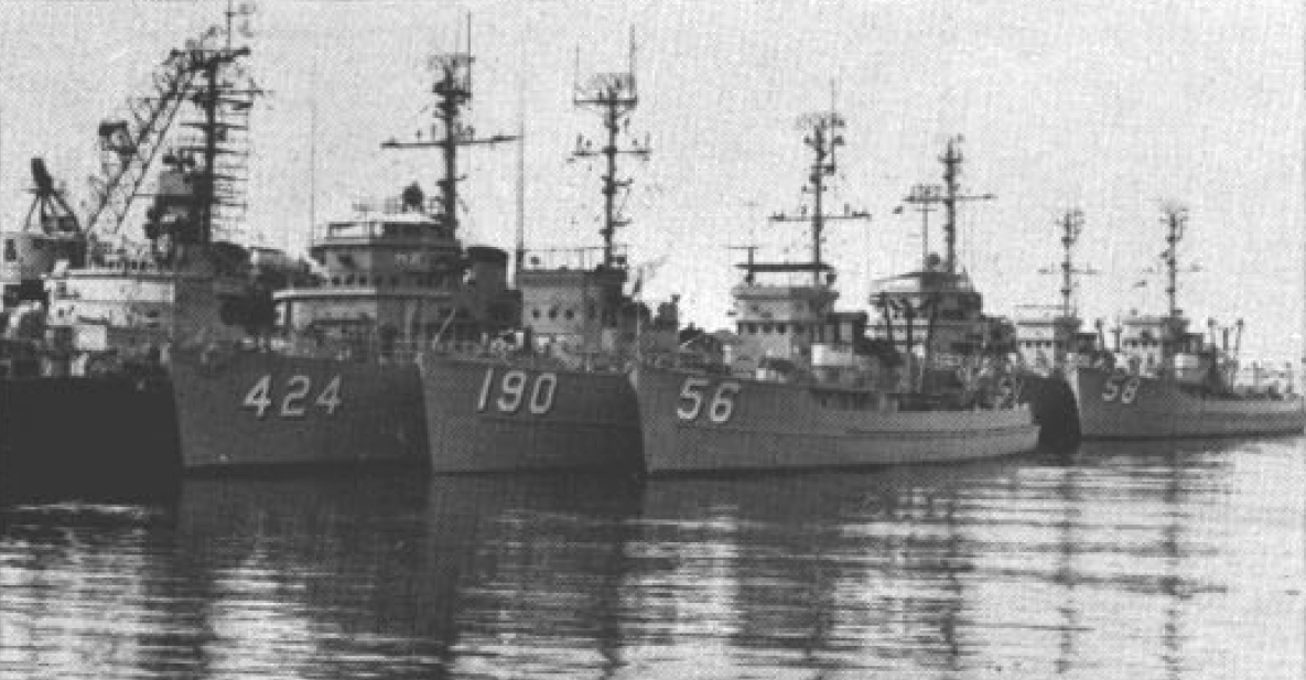 The U.S. Naval Reserve Mine Division 22, probably at Providence, Rhode Island (USA), circa 1965 (l-r): USS Bold (MSO-424), USS Falcon (MCS-190), USS Turkey (MSC(O)-56), USS Siskin (MSC(O)-58) and probably USS Reedbird (MSC(O)-51).